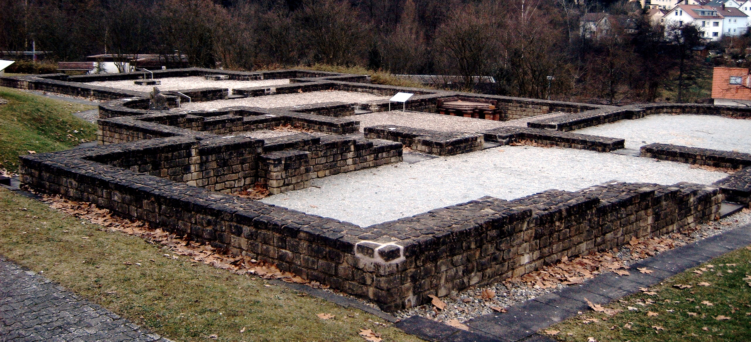 Conserved remnants of roman baths at Schirenhof, Schwäbisch Gmünd, Germany